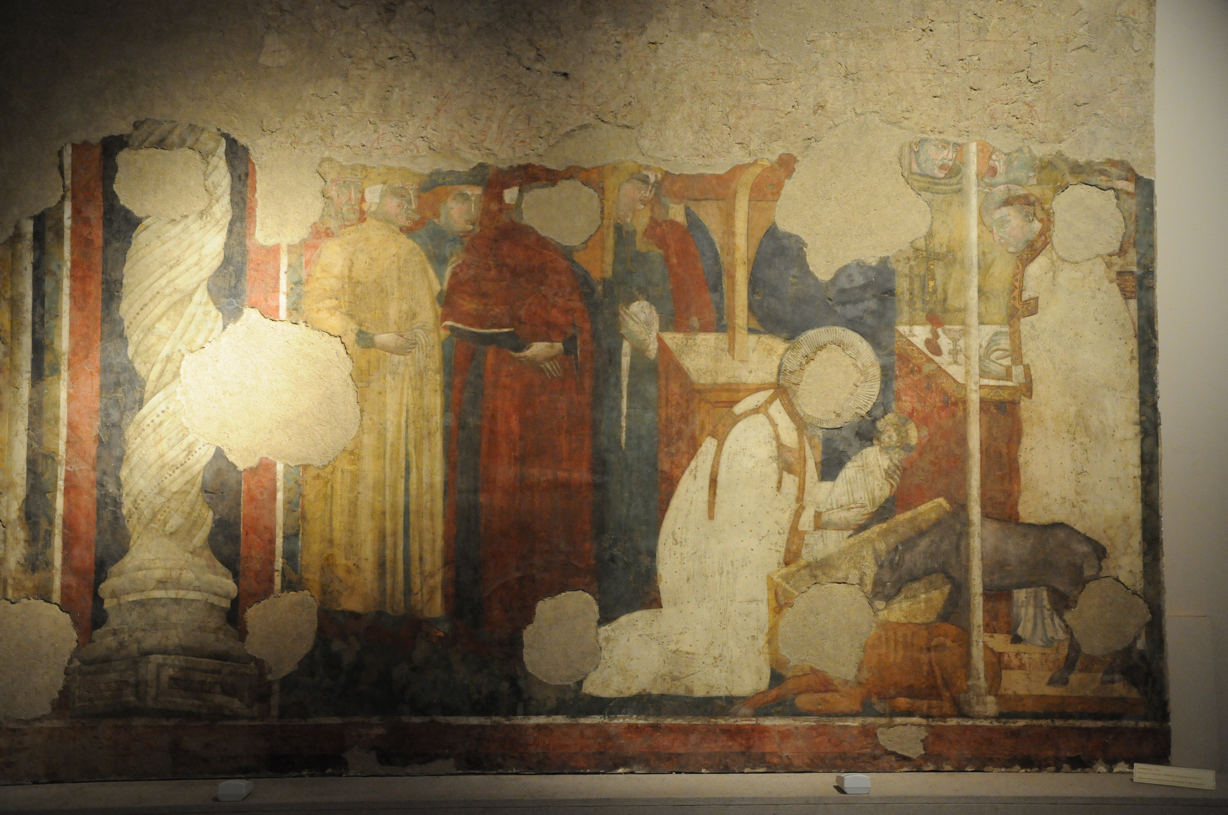 Fresco detached from St. Francis church now preserved in the Diocesan Museum of Rieti (Lazio, Italy)